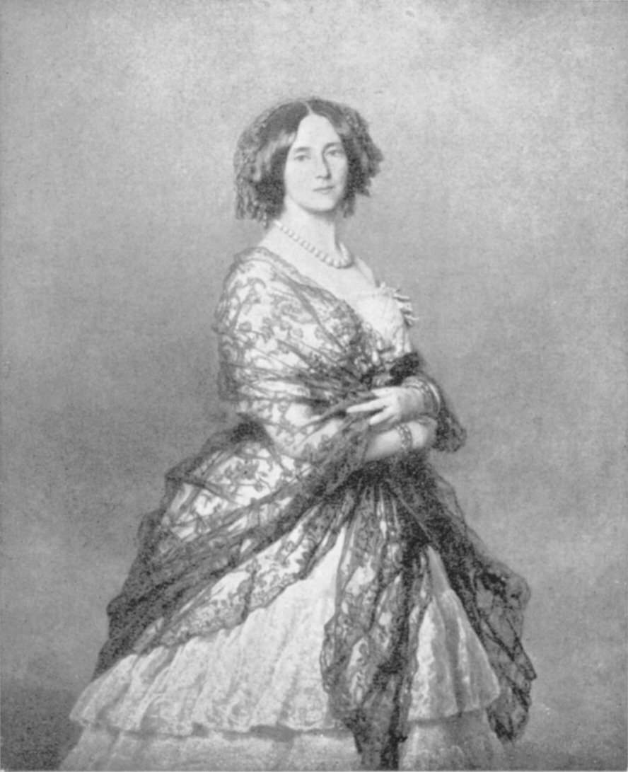 Portrait of Augusta of Saxe-Weimar-Eisenach (1811-1890)